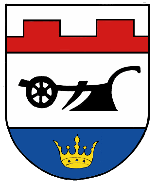 Coat of arms of Nasingen